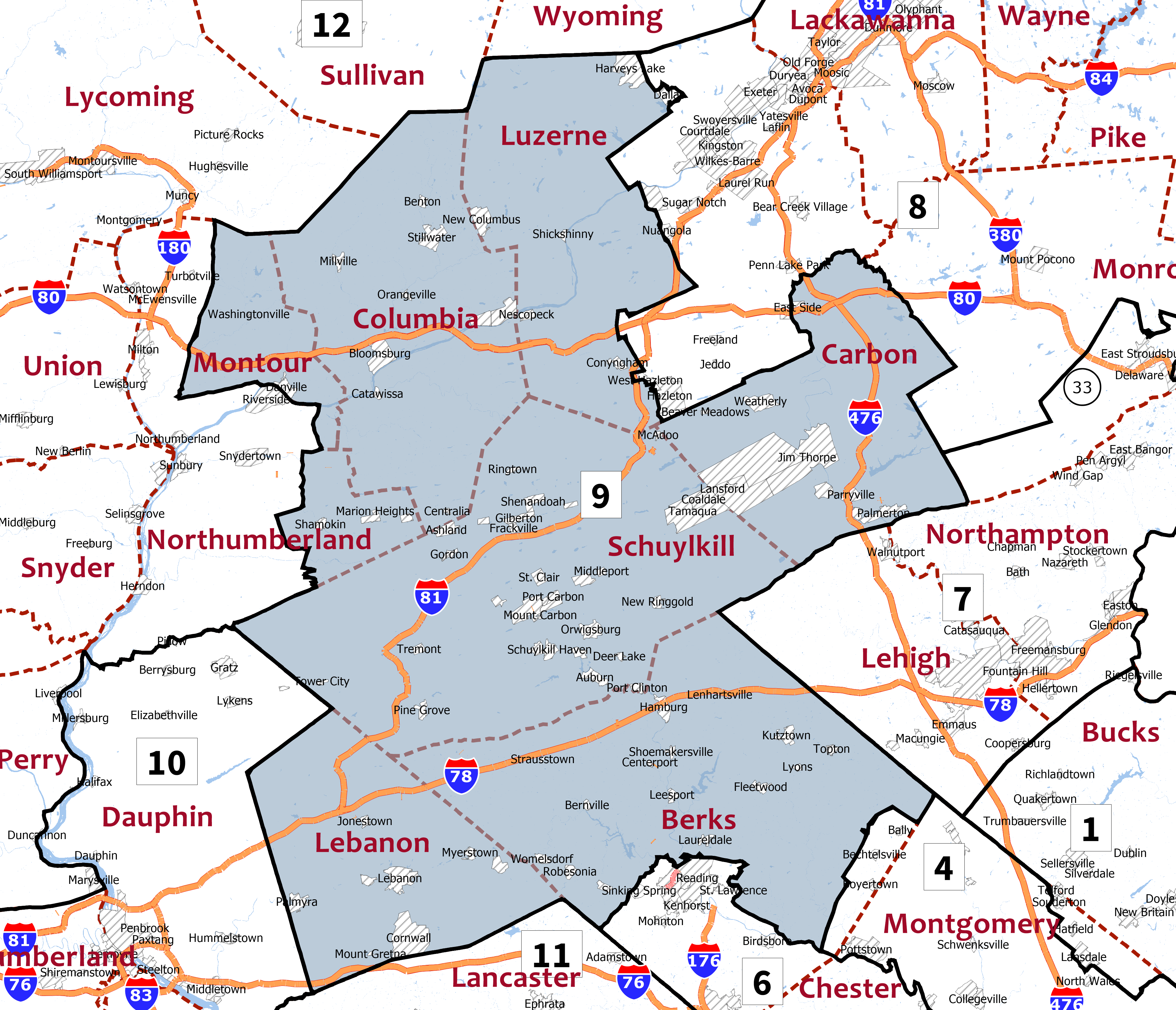 Pennsylvania congressional district 9